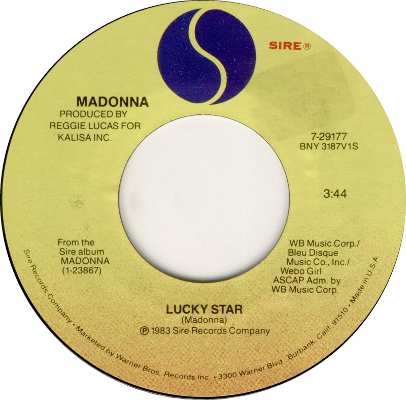 Side A of "Lucky Star" by Madonna; 7-inch U.S. vinyl edition